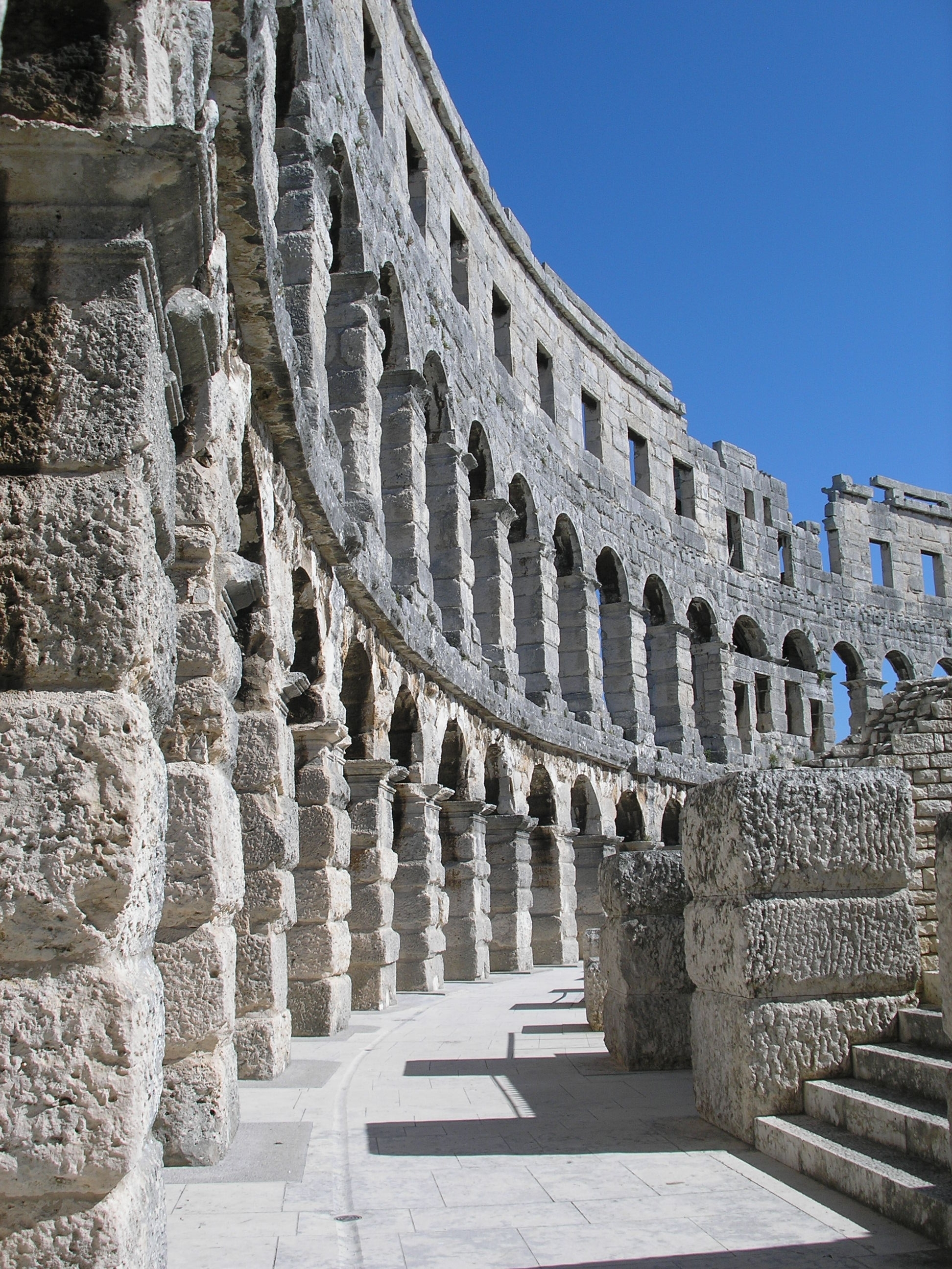 The amphiteathre in Pula, Croatia.